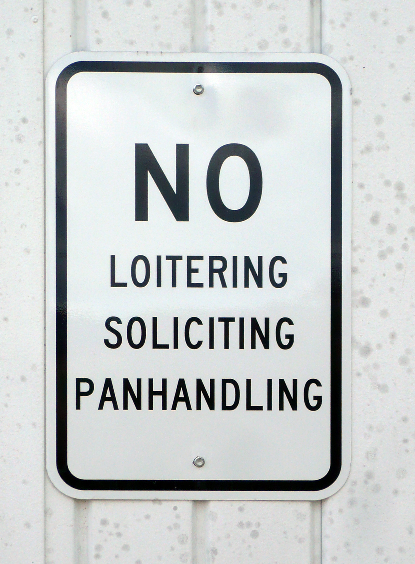 A no loitering, no soliciting, no panhandling sign in a shopping center in Fortuna, California